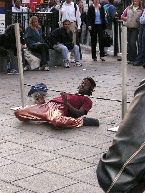 A limbo-dancer in the streets of London.